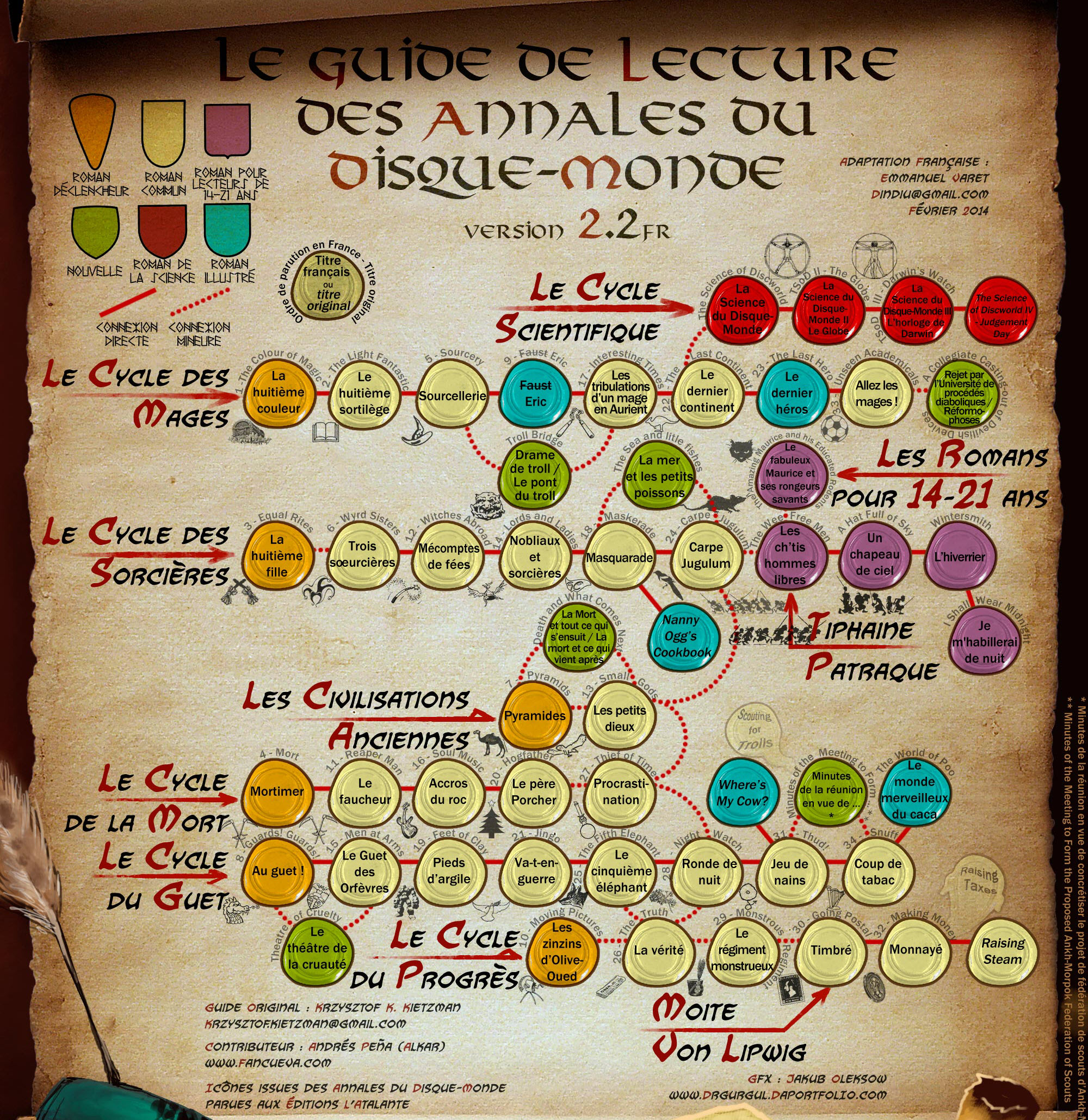 Une lecture possible des livres des annales du disque monde, par serie